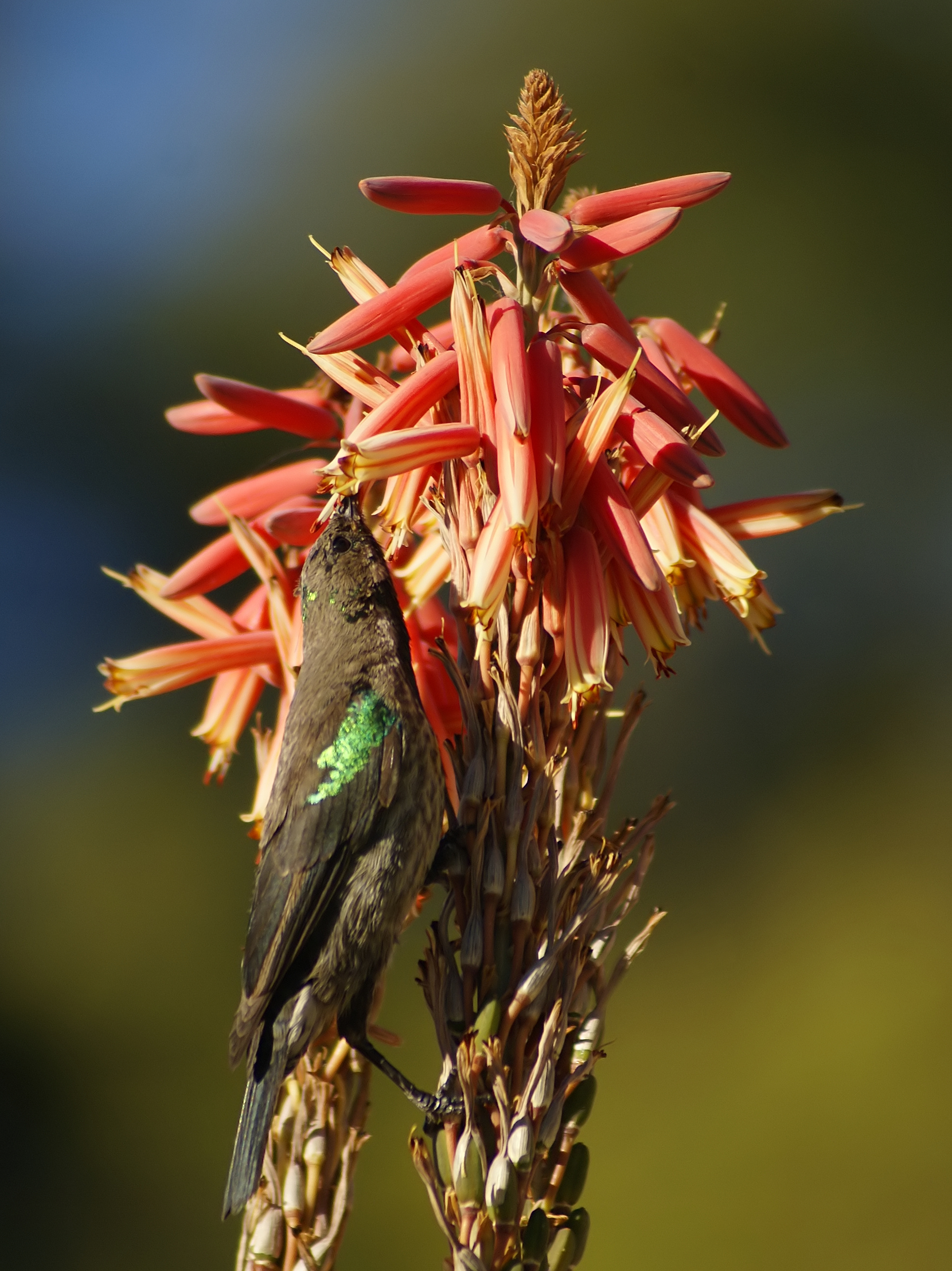 Mariqua Sunbird in Tsumeb, Namibia.